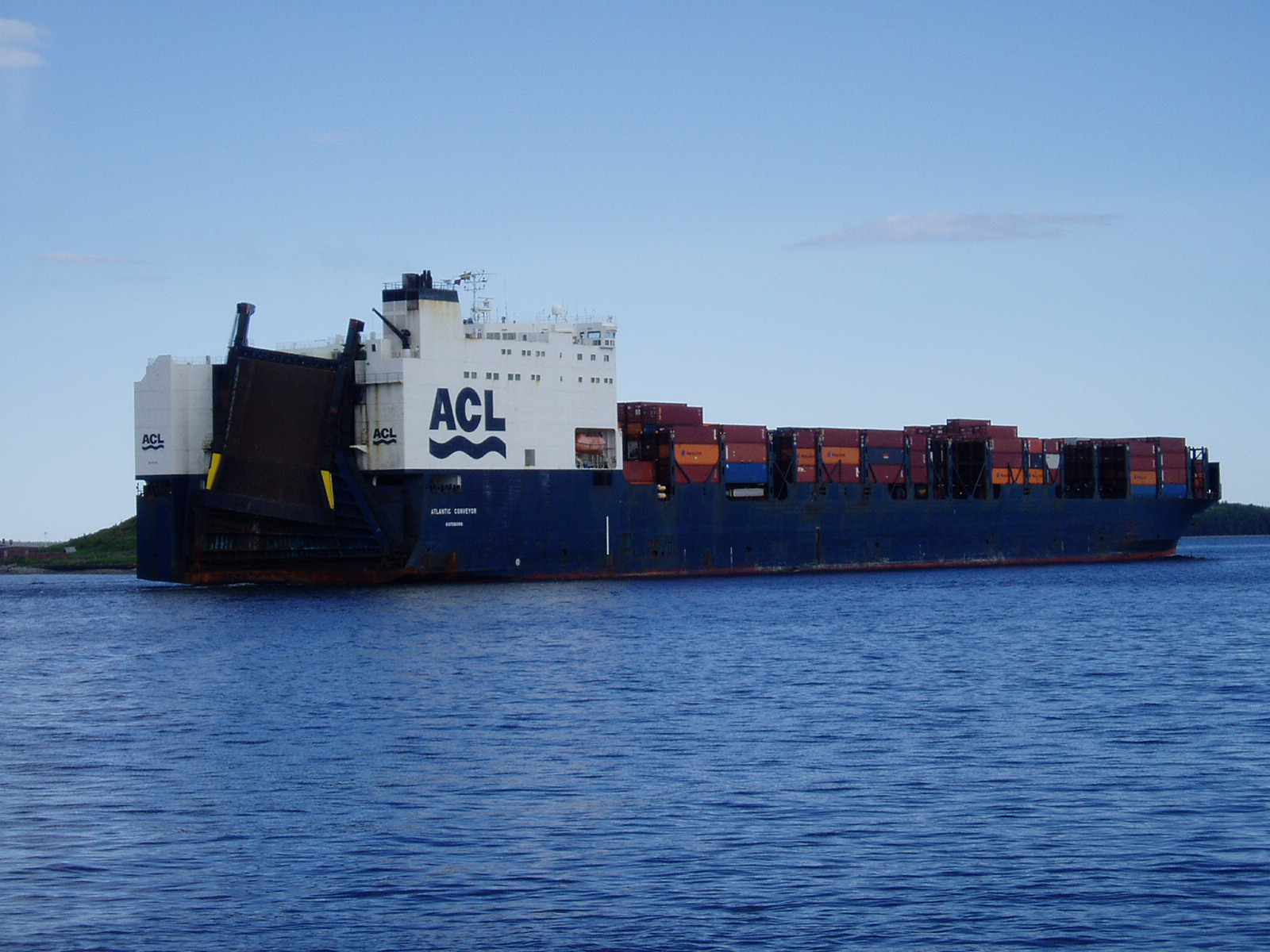 along the Halifax waterfront (July 1 2007)